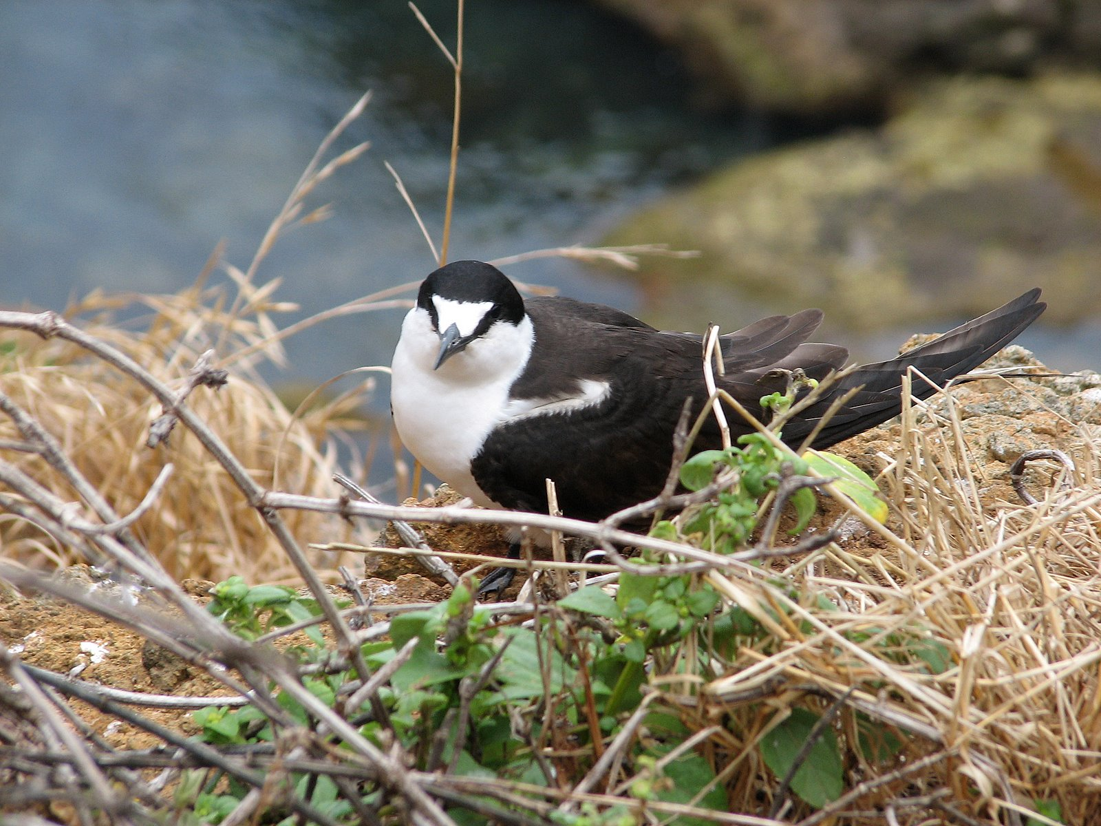 An adult Sooty Tern on Phillip Island, Norfolk Island group, Australia.